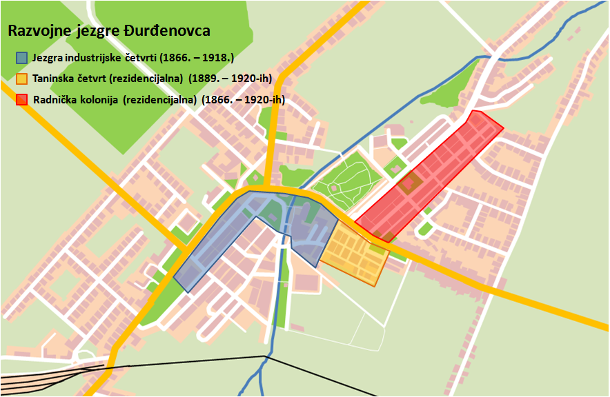 Map content: pre-planned late 19. century urban nucleus of a company town Đurđenovac, Croatia, shown on contemporary town map. The nucleus consists of three main blocks, the Industrial district's core (blue), "Taninska" residential district (orange) and Workers' colonies (red).